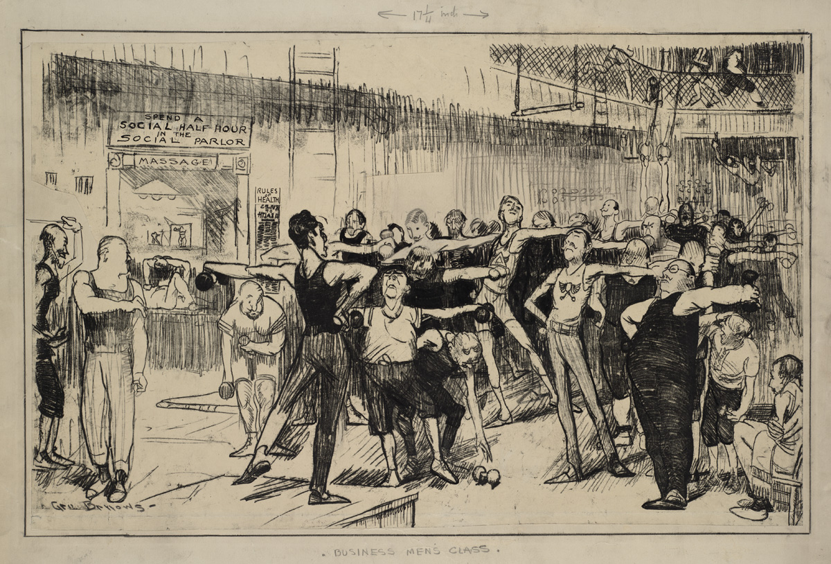 File name: 06_05_000003 Accession no.: 1943.1.7 Title: Business Men's Class Alternative title: Creator/Contributor: Bellows, George, 1882-1925 (artist) Date created: 1913 Physical description: 1 drawing : monoprint with crayon, ink, graphite, and scratchwork pasted on board ; 16 1/2 x 25 3/4 in. Genre: Drawings Notes: Signed "Geo Bellows"; Published in The Masses as "Superior Brains The Businessmen's Class," April 1913. Provenance: Sold by H.V. Allison Galleries to Albert H. Wiggin, June 1943. Gifted to the Boston Public Library. Location: Boston Public Library, Print Department Rights: No known restrictions Flickr data on 2011-08-02: Camera: Sinar AG Sinarback 54 FW, Sinar m Tags: dc:identifier=06_05_000003 License: CC BY 2.0 User: Boston Public Library BPL